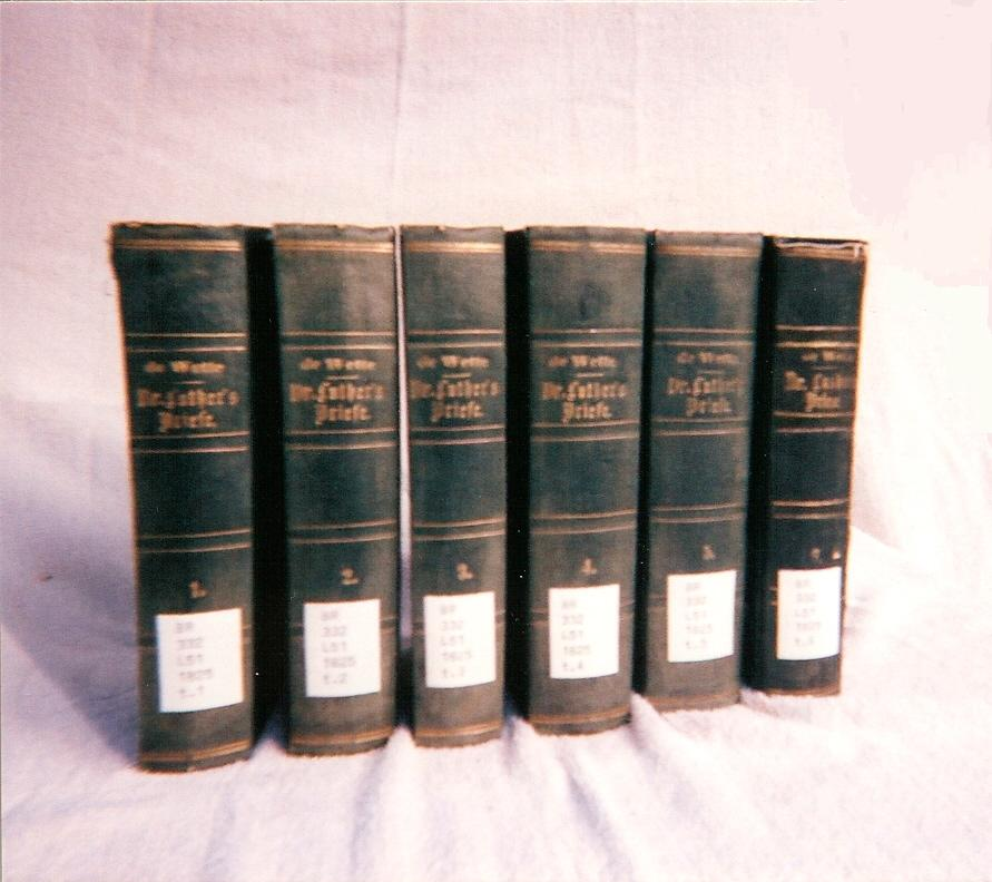 The six volume set of Dr. Martin Luther's Briefe, Sendschreiben, und Bedenken, published between 1825 and 1856, and edited by W. M. L. De Wette. This particular set of books is housed in the Moody General Collection at Baylor University, Waco, Texas.